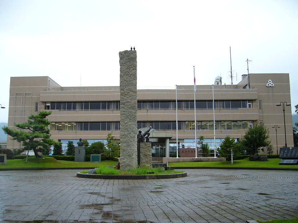 Mihama Town Office in Fukui Preferture, Japan